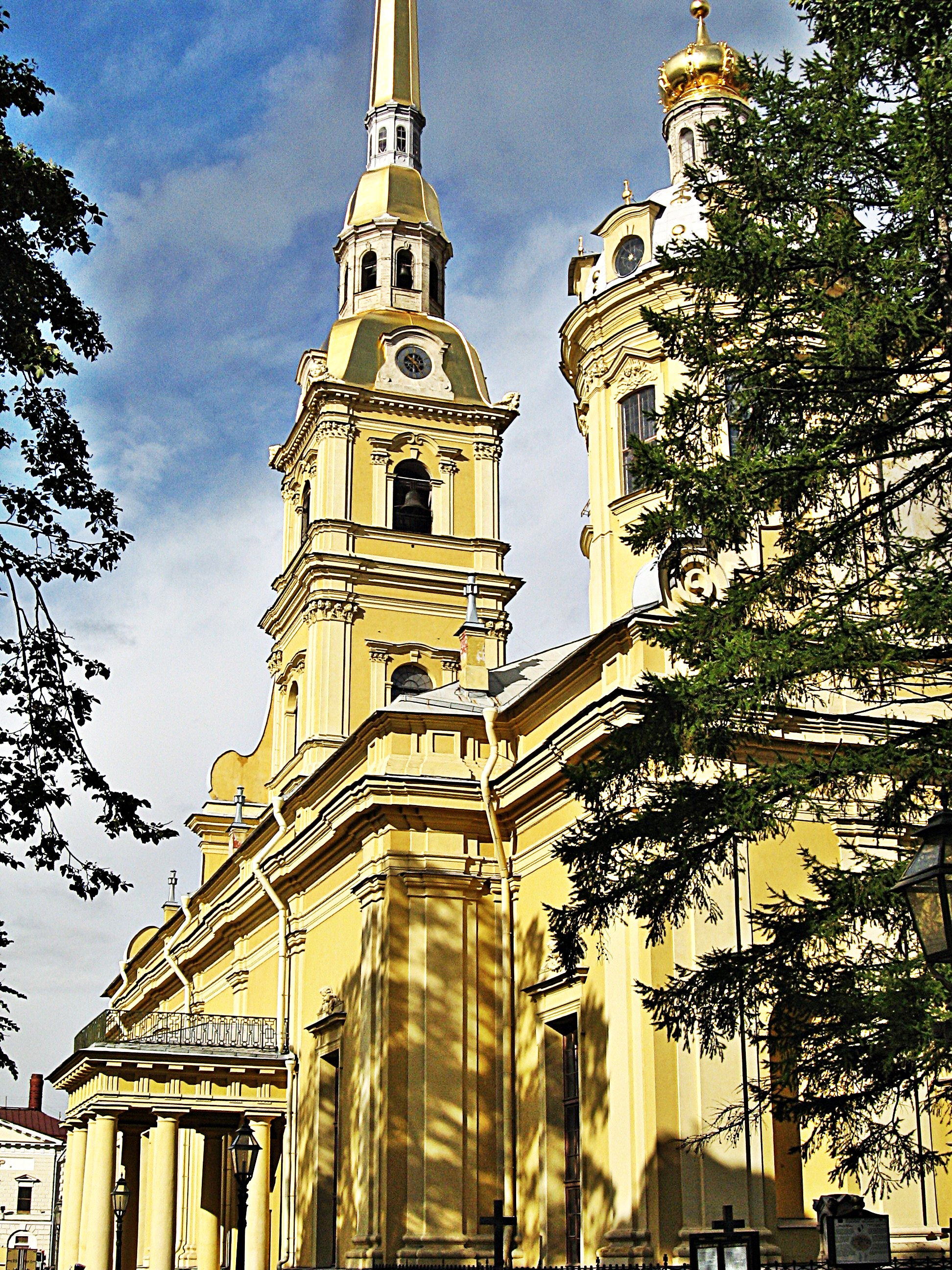 saint peter and paul catthedral